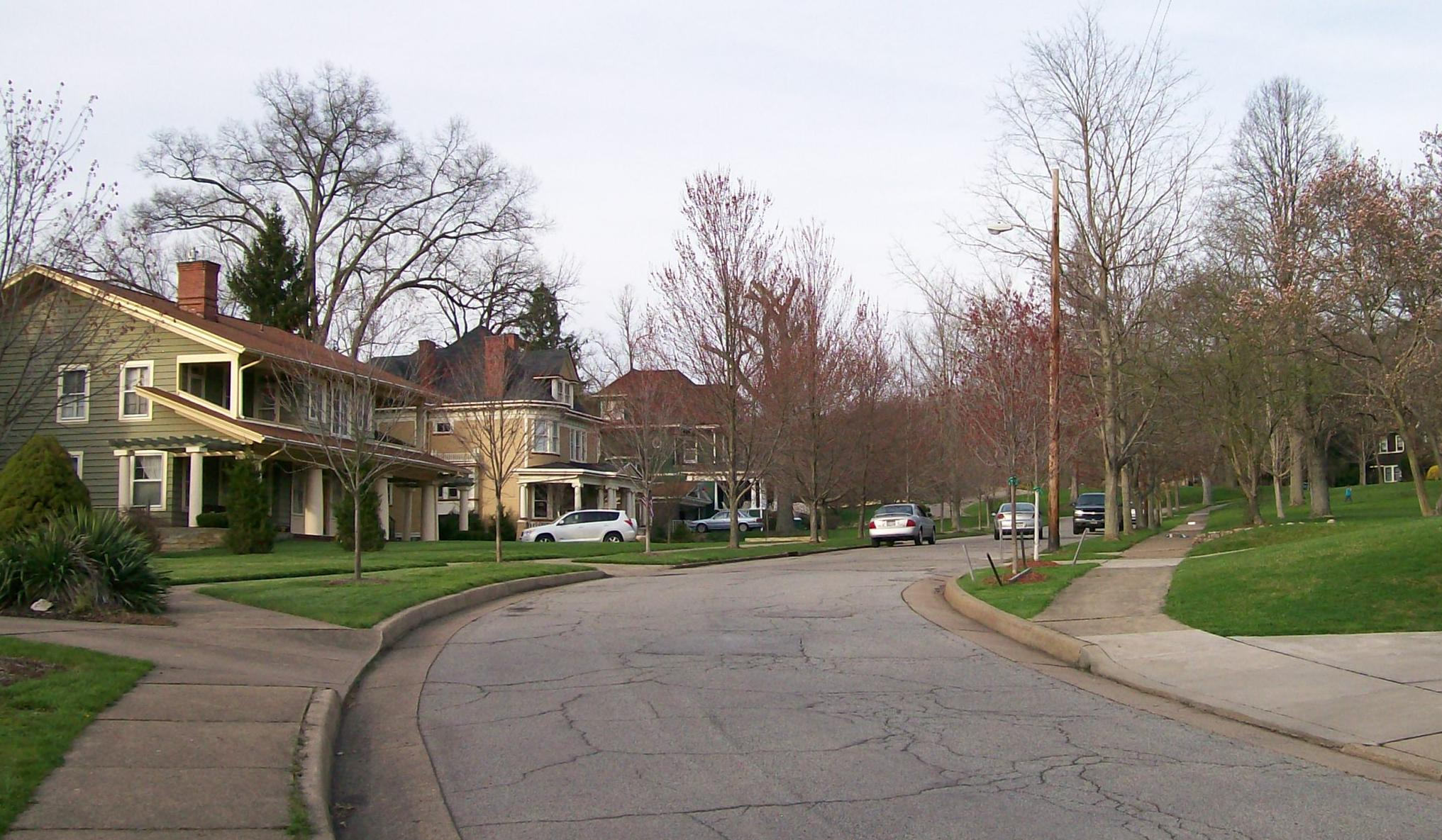 The Highland Park Historic District from the southern boundary line. Photographed looking north over the district. The district was placed on the NRHP in 1993. Taken on April 2, 2010.